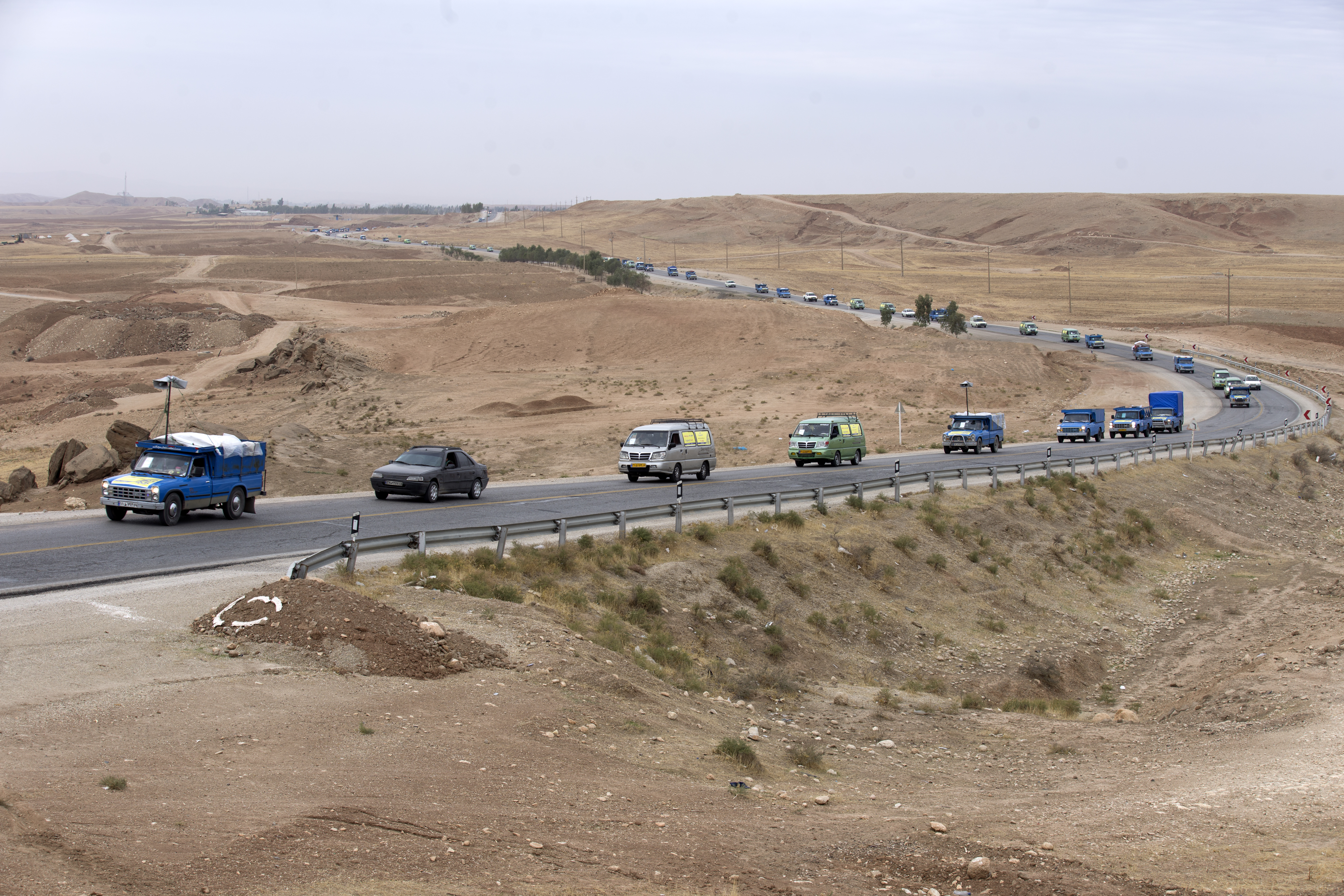 On 12 November 2017 at 18:18 UTC an earthquake with a moment magnitude of 7.3 occurred on the Iran–Iraq border, just inside Iran, in Ezgeleh, Salas-e Babajani County, Kermanshah Province, with an epicentre approximately 30 kilometres (19 mi) south of the city of Halabja, Iraqi Kurdistan.